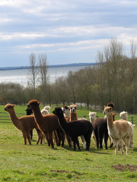 Alpaca herd on Toft Hill overlooking Draycote